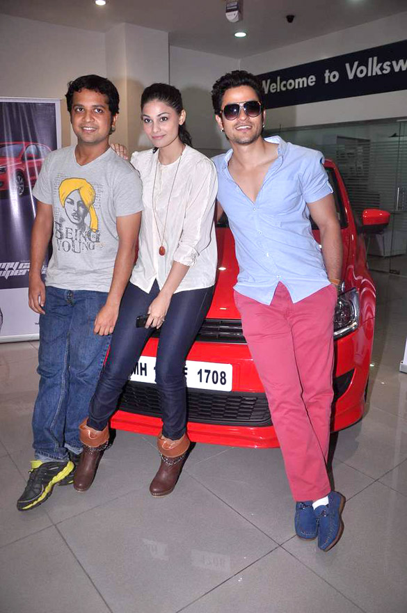 Anand Tiwari, Puja Gupta, Kunal Khemu Promotions of 'Go Goa Gone' in association with Volkswagen